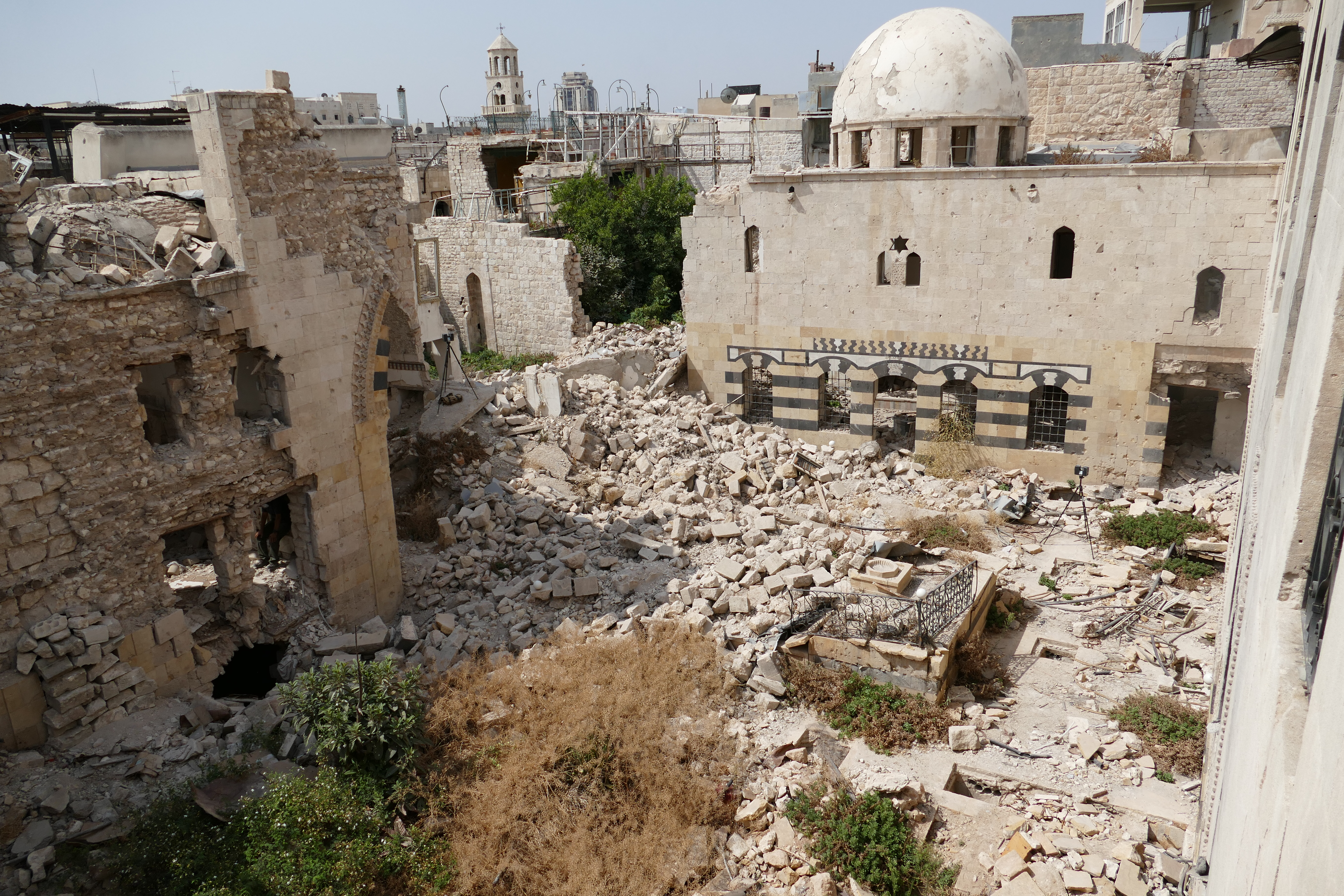 Beit Ghazaleh (The Ġazaleh House; Arabic: غزالة) is one the largest and better-preserved palaces from the Ottoman period in Aleppo. Photograph was taken during damage assessment survey for UNESCO & the Directorate-General of Antiquities and Museums by Art Graphique & Patrimoine in September 2017.